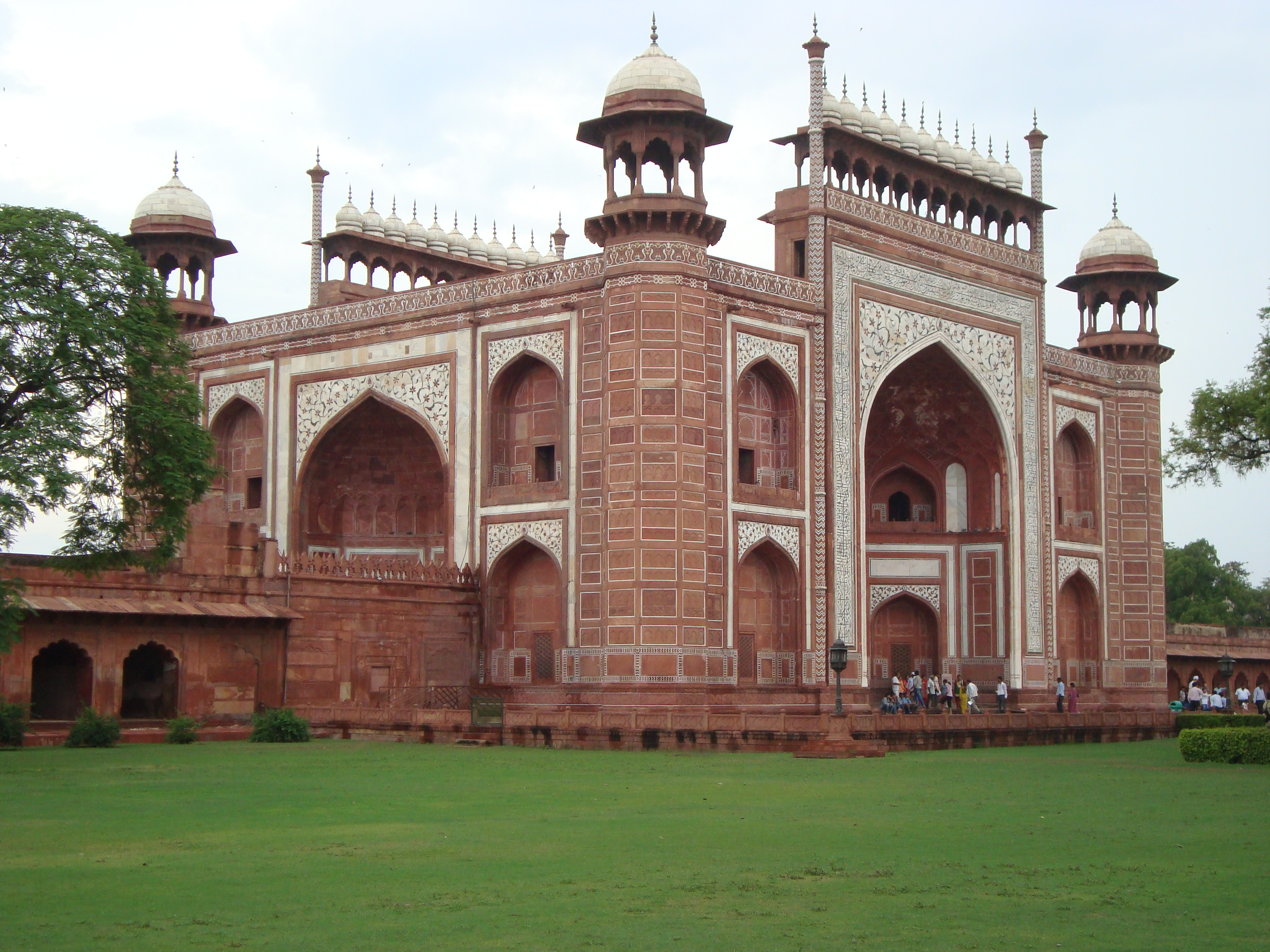 Entrance of Taj Mahal